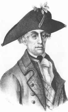 johann Beaulieu